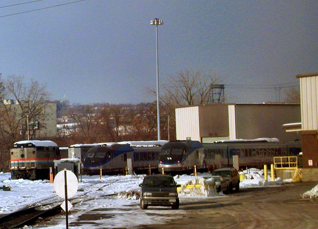 Two rebuilt Amtrak RTL III Turboliner trainsets sit at the Albany Diesel Shops during their brief return to service in 2003.